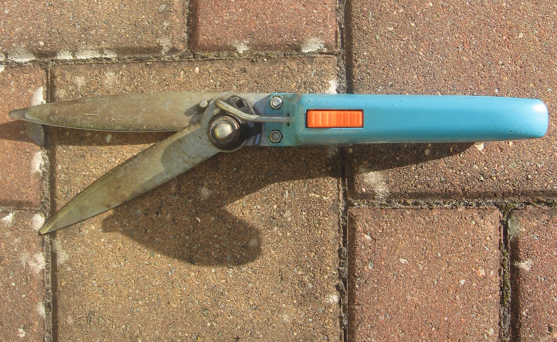 Classic grass shears (lawn edging shears, lawn shears) by Gardena.